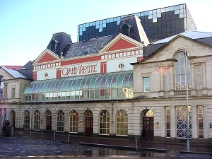 P Parker, Swansea, UK